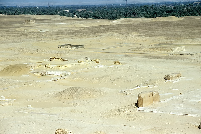 Two queen pyramids, north-east corner of the south pyramid of Sesostris I, Lisht, Egypt